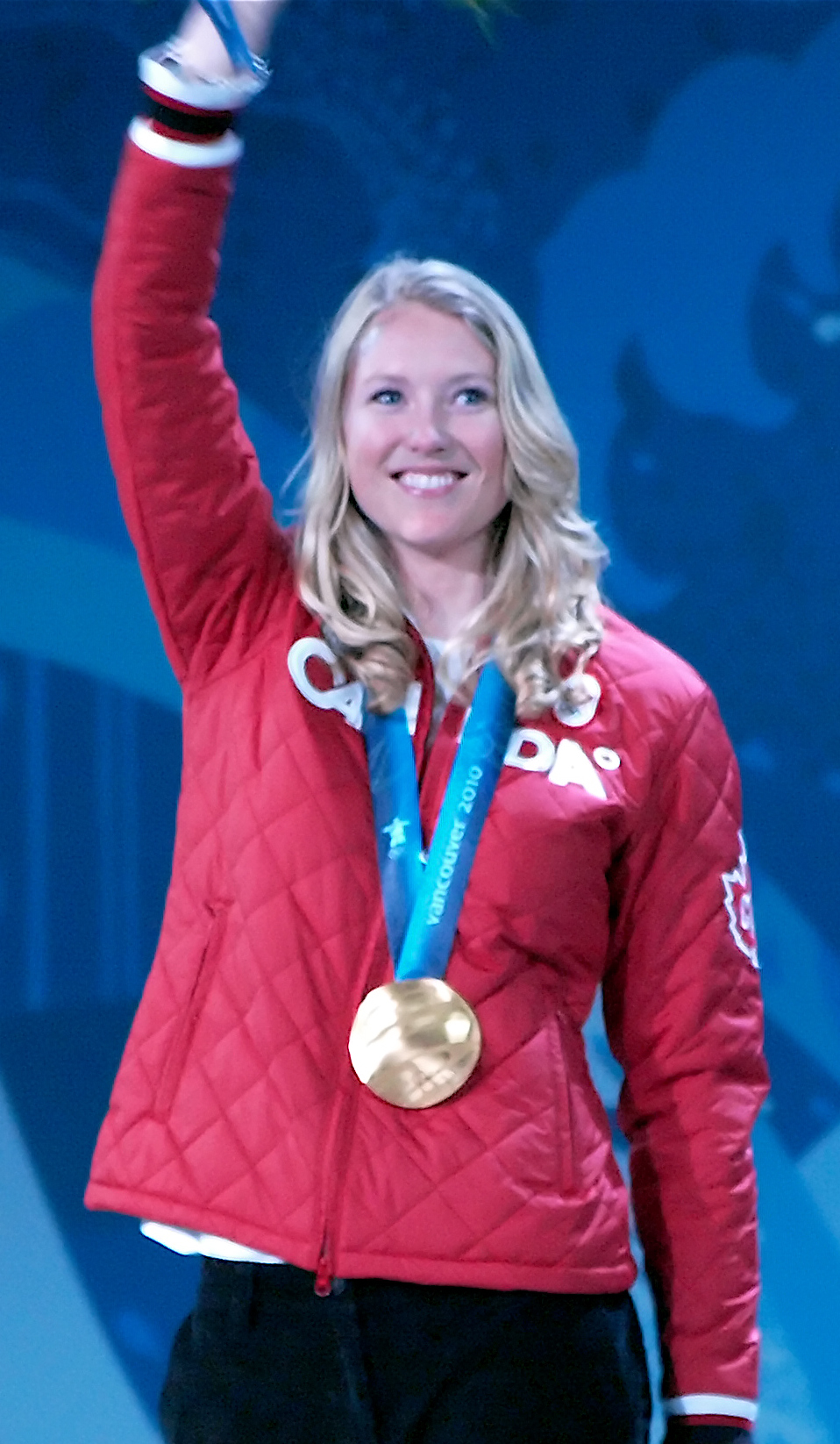 Ashleigh McIvor on the podium at 2010 Winter Olympics.